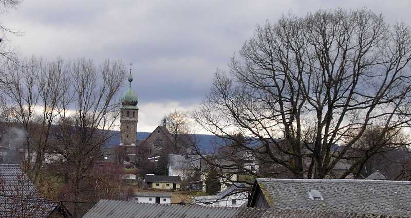 The village of Medell